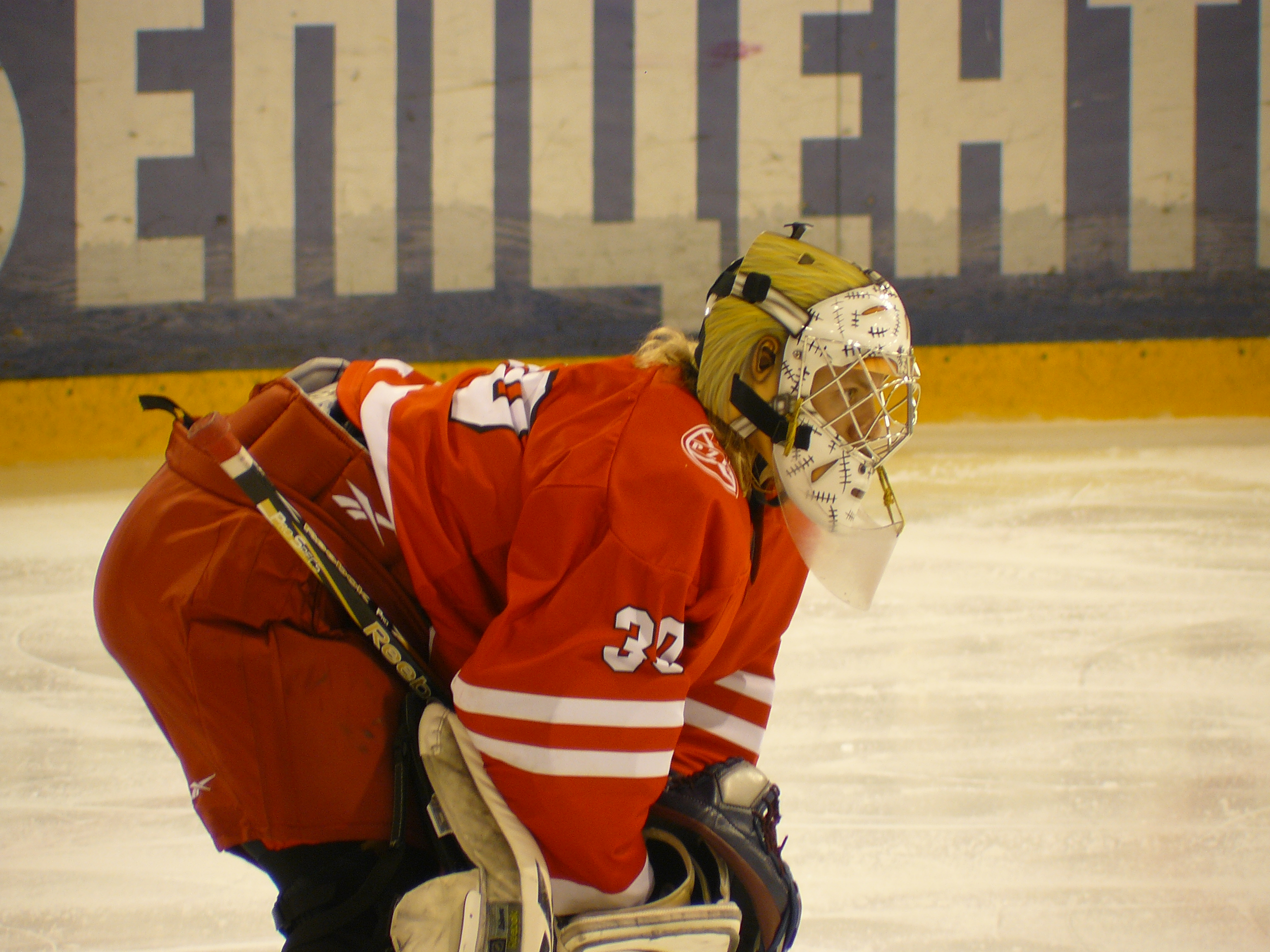 Goalie Przemysław Odrobny #30 of the Poland during the friendly game against the Ukraine on April 9, 2010 at the Terminal Arena in Brovary, Ukraine. Ukraine won the game 5:1.